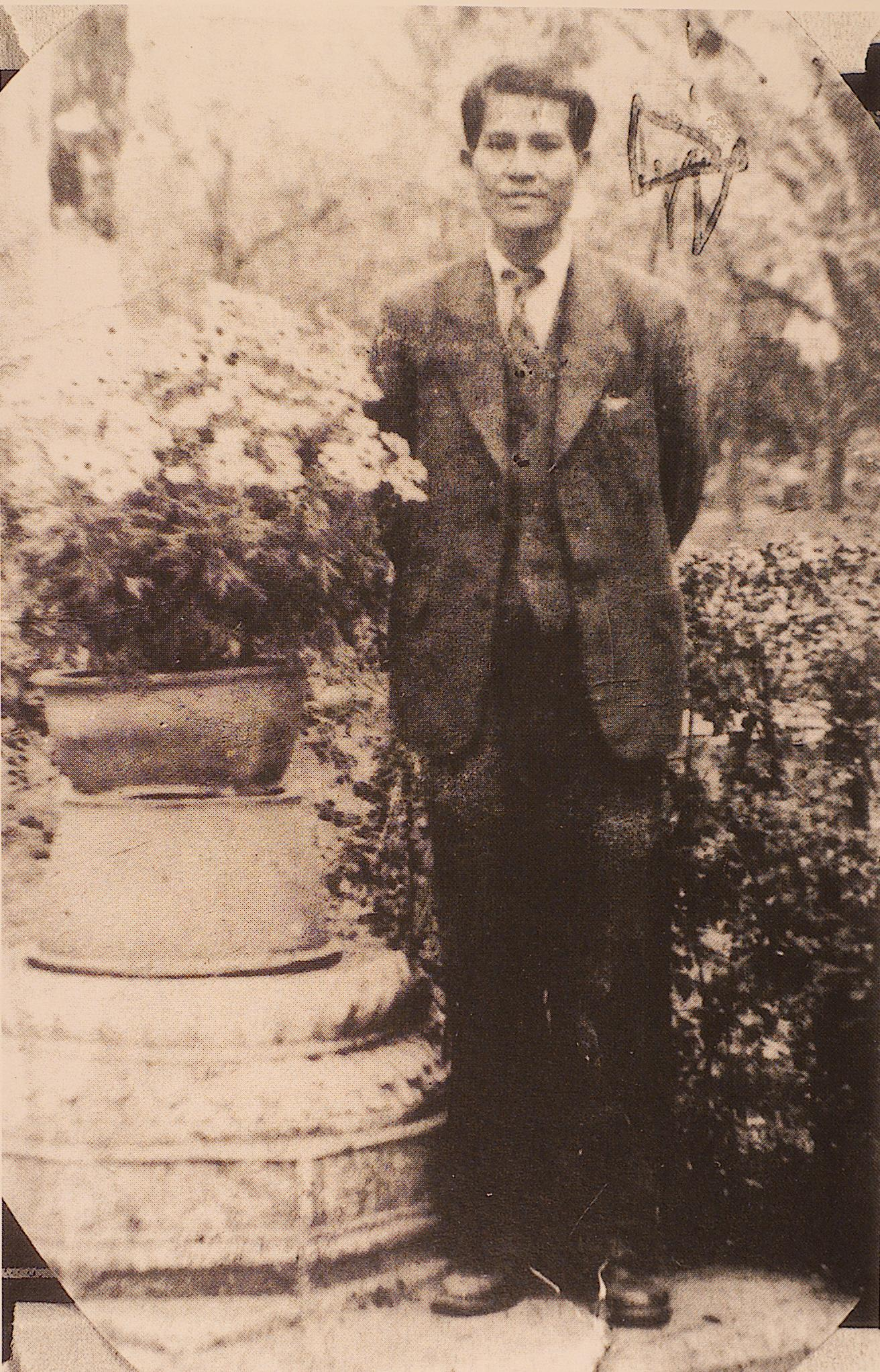 Zhong Hao-dong, a communism social activist of Taiwan